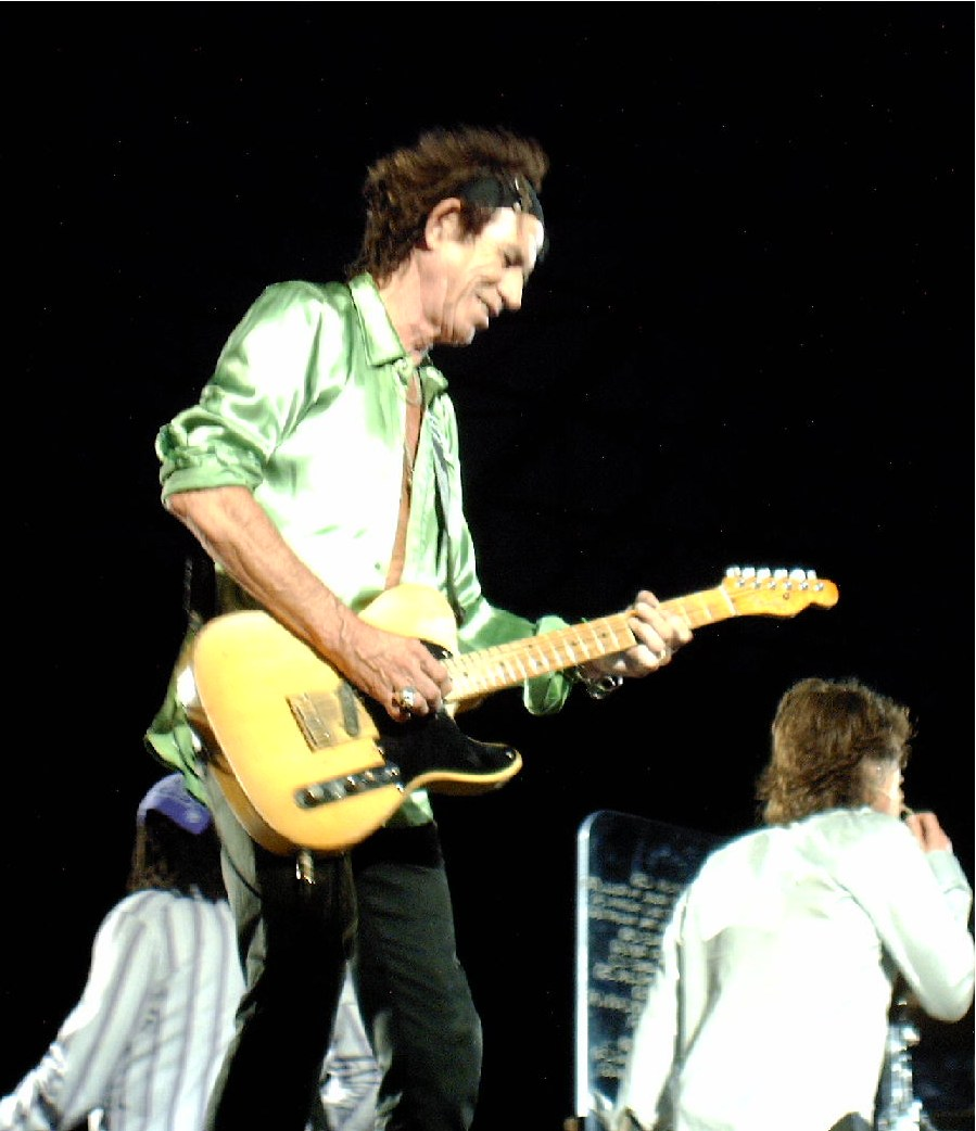 Keith Richards, live in Hannover